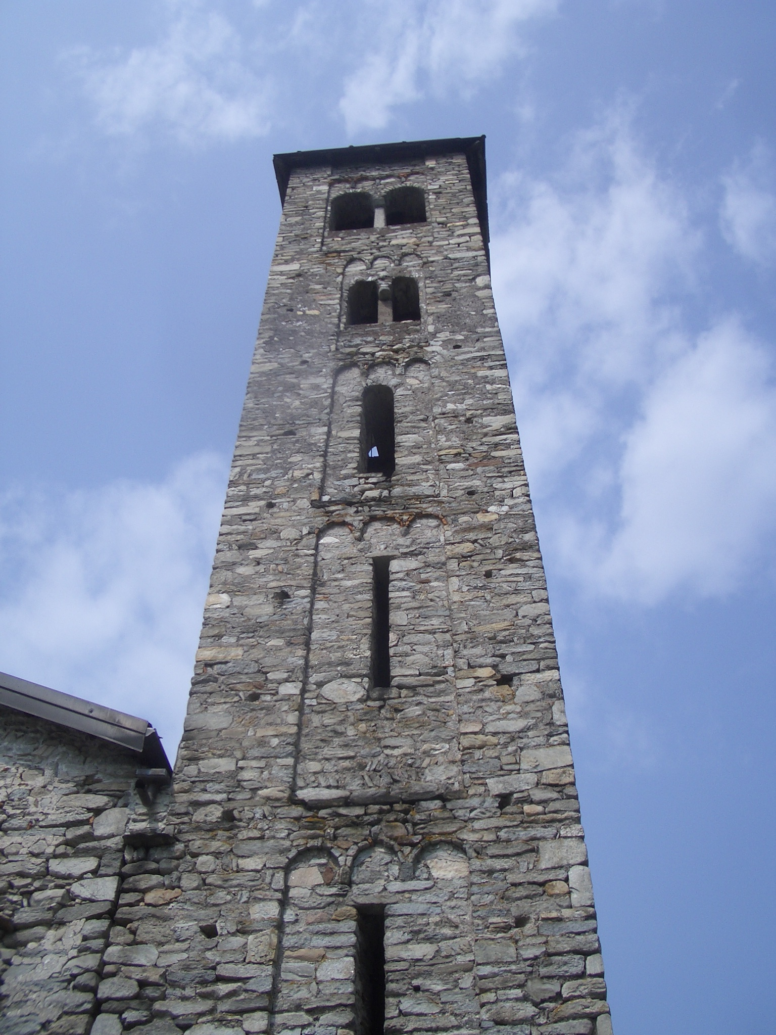 Paruzzaro, San Marcello Church, the bell tower, romanesque architecture, XI century